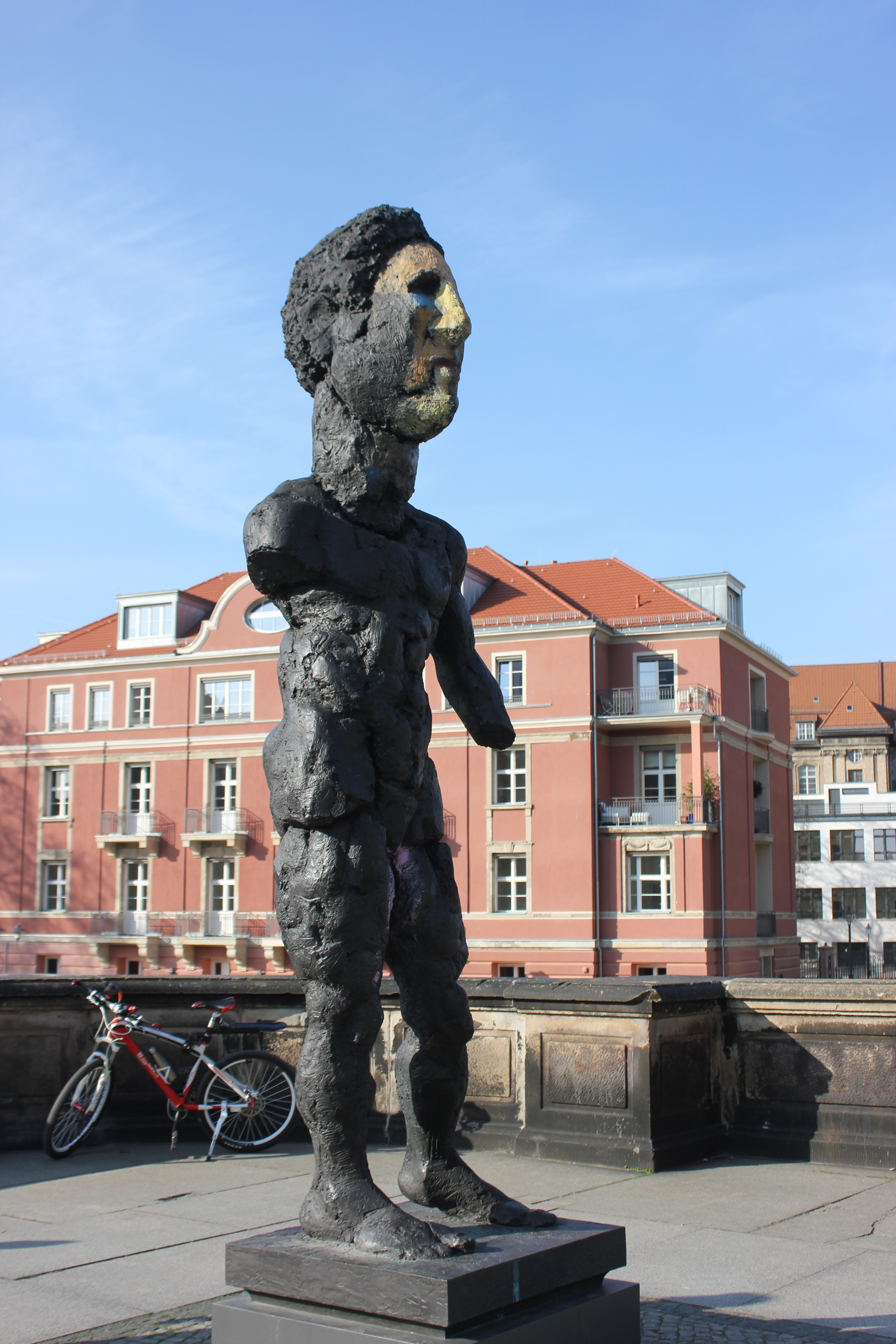 Sculpture of Odysseus by Markus Lüpertz at the Bode-Museum, Berlin, Germany